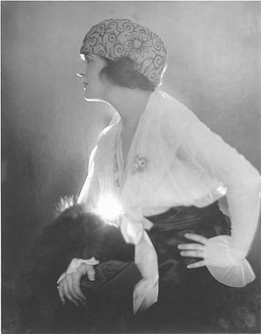 Mary Nash by Adolf de Meyer 1919-1920